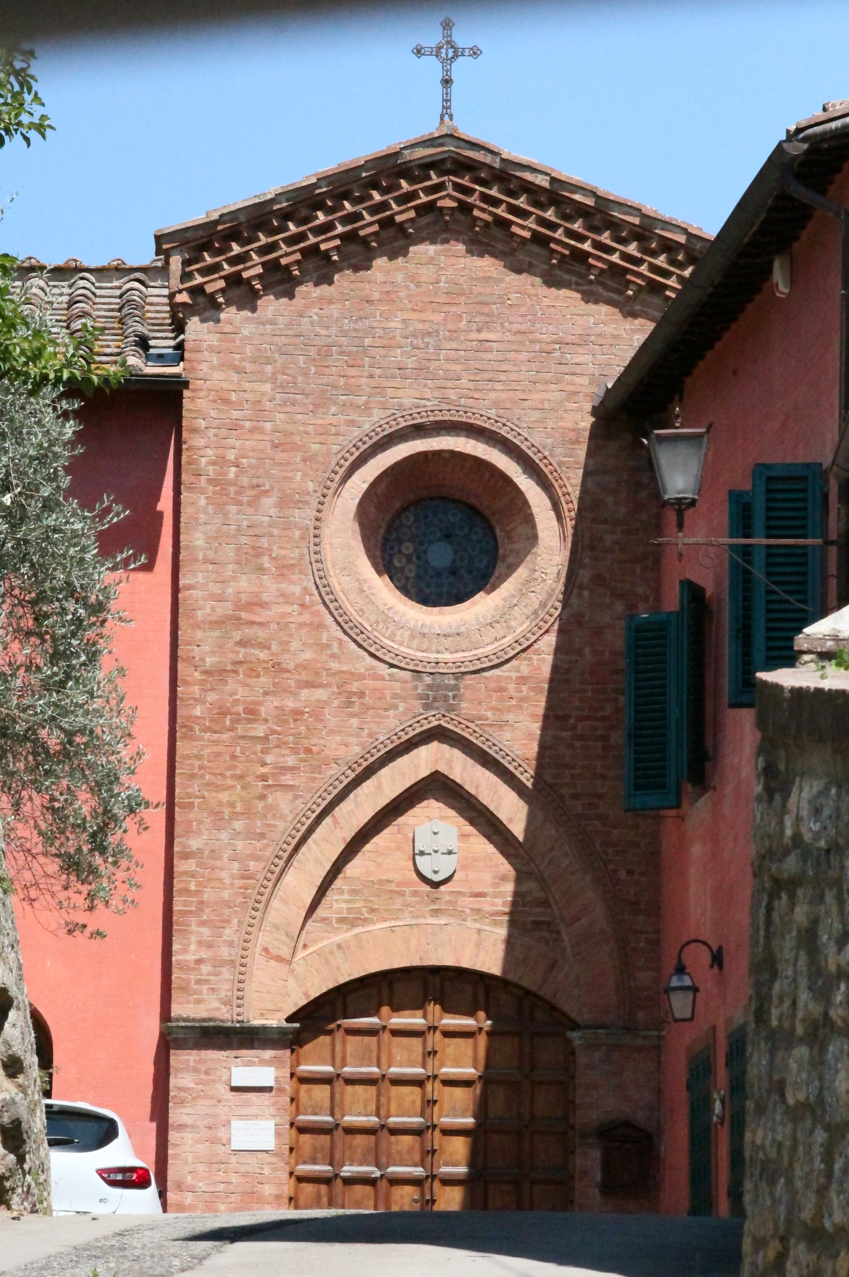 Church San Giovanni Evangelista, Basciano, hamlet of Monteriggioni, Province of Siena, Tuscany, Italy